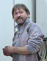 Present-day Russian philologist Grigory Amelin (b.1960)